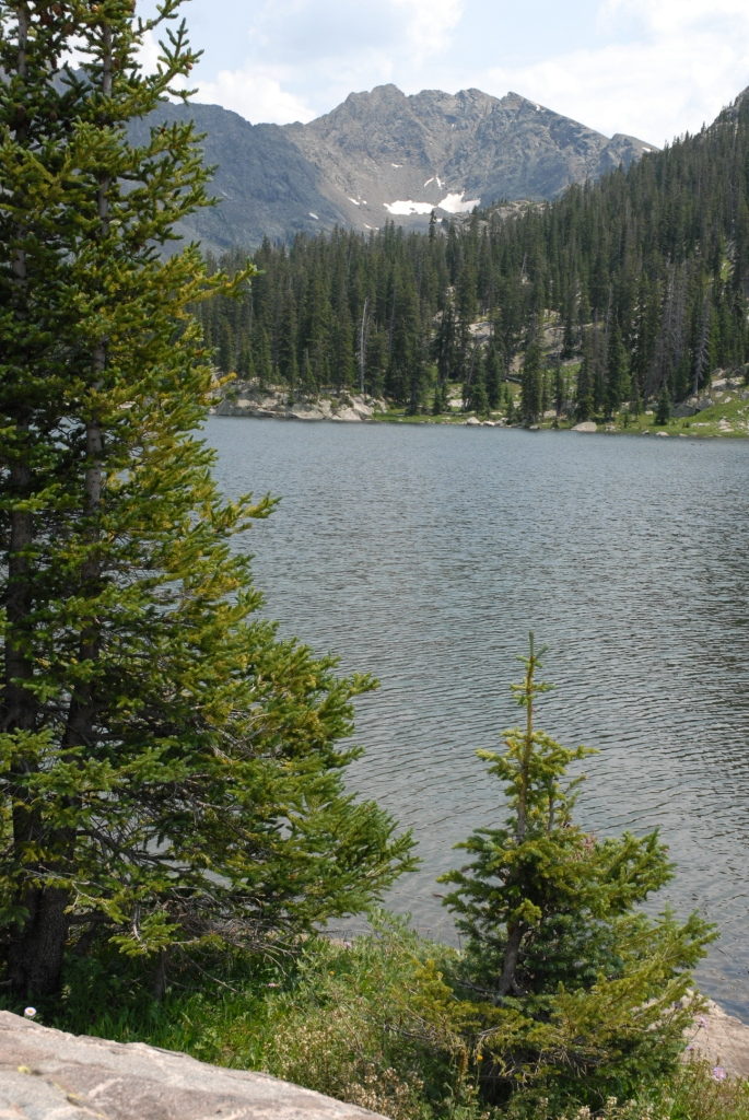 Lake Charles, Holy Cross Wilderness, south of Eagle, Colorado.